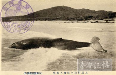 South Cape Light House 3.20.20"中文（台灣）: 明信片"大鯨引揚中"，戳記"鵝鑾鼻燈臺。